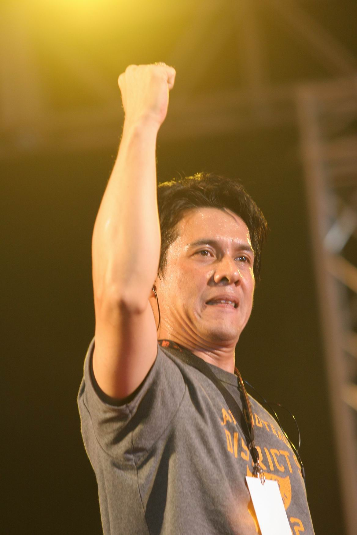 Thai singer and actor Amphol Lampoon at the Grand Pattaya International Music Festival 2007.